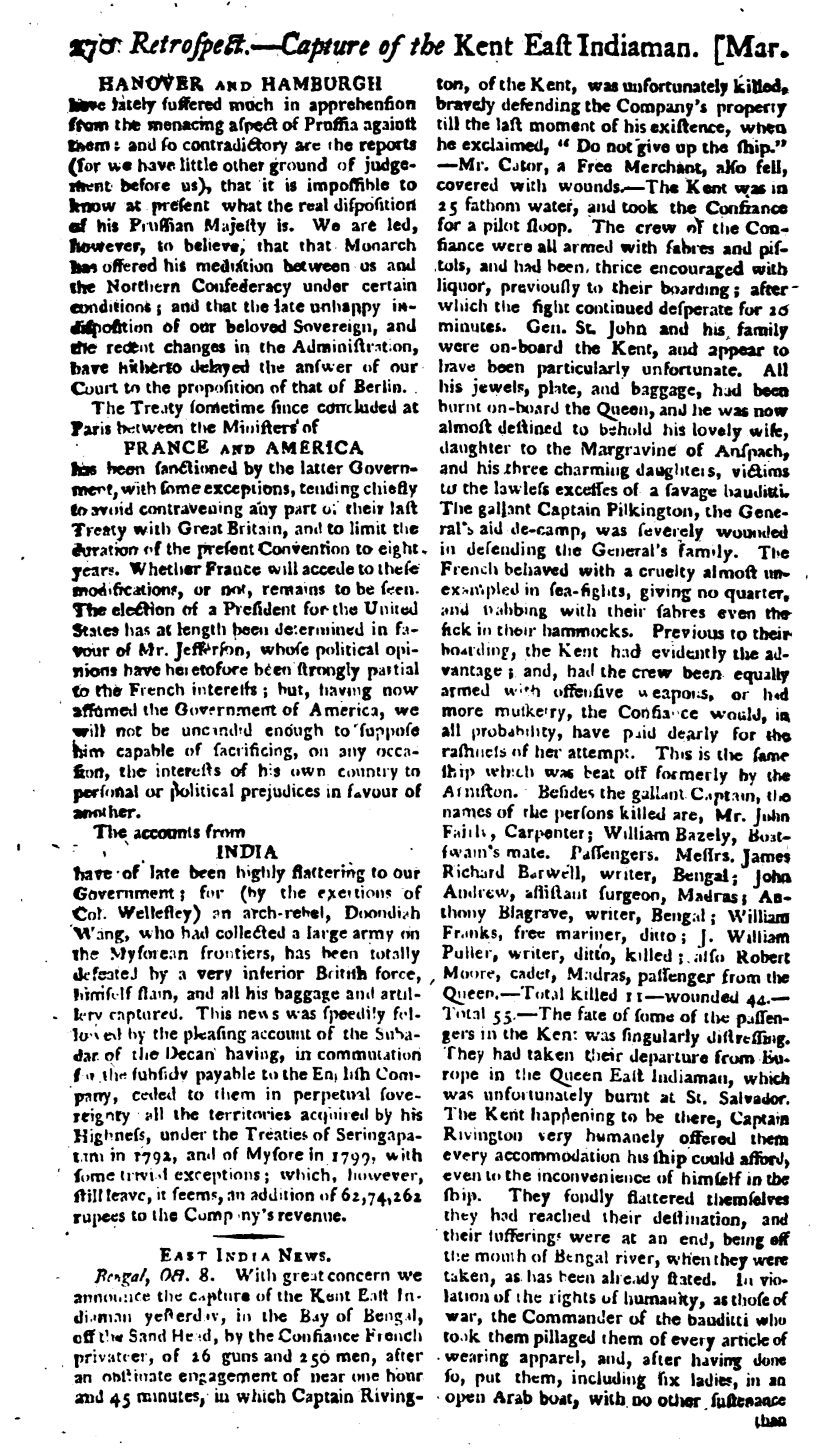 Contemporary account of the catpure of Kent by Robert Surcouf in The Gentleman's Magazine.